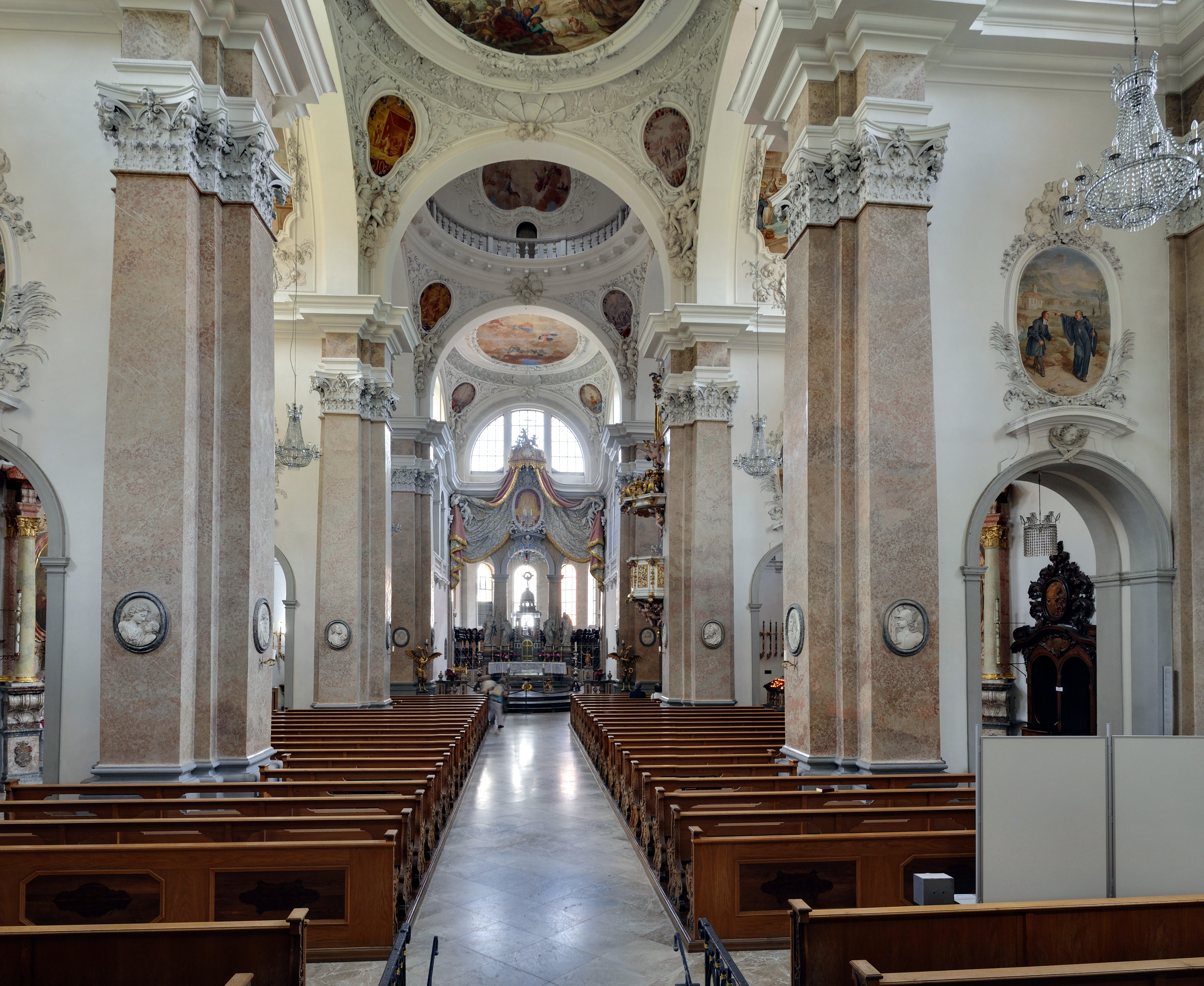 St. Mang Basilica Füssen